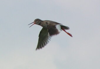 Tringa totanus flying & defending his nest